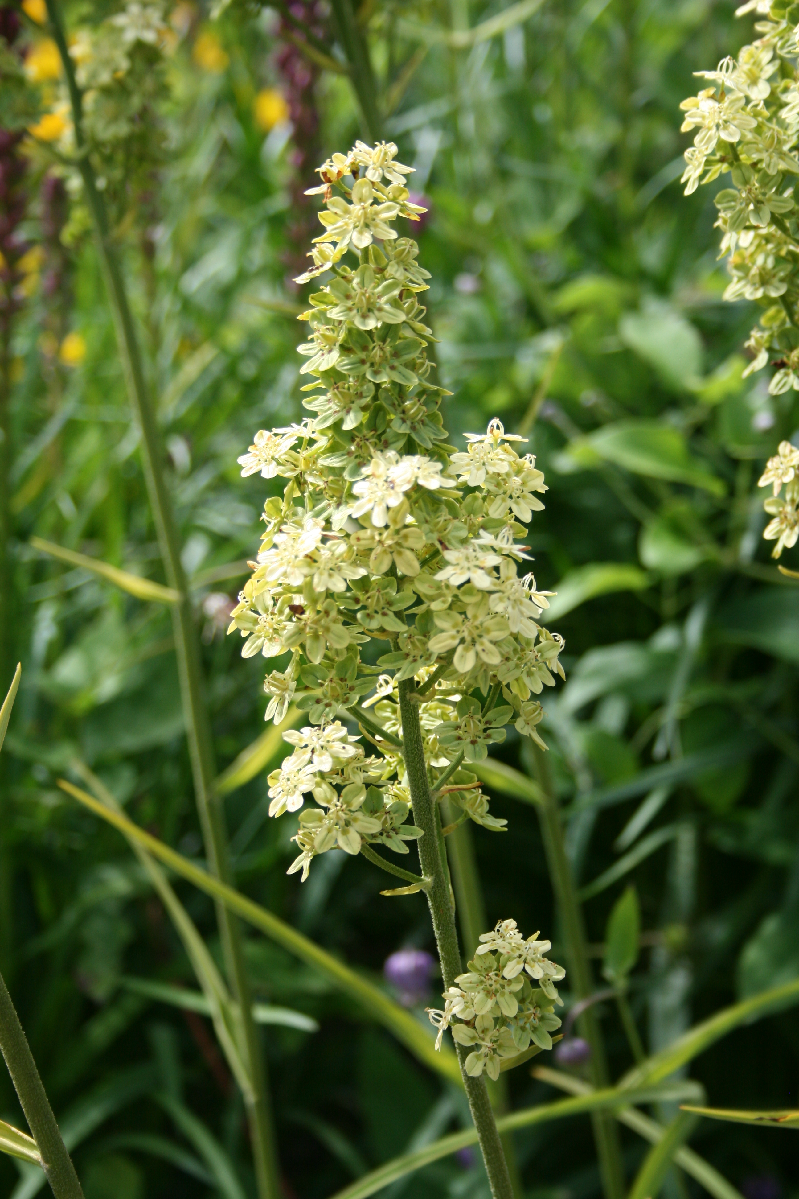 Veratrum virginicum